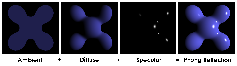 Illustration of the components of the Phong reflection model (Ambient, Diffuse and Specular reflection).